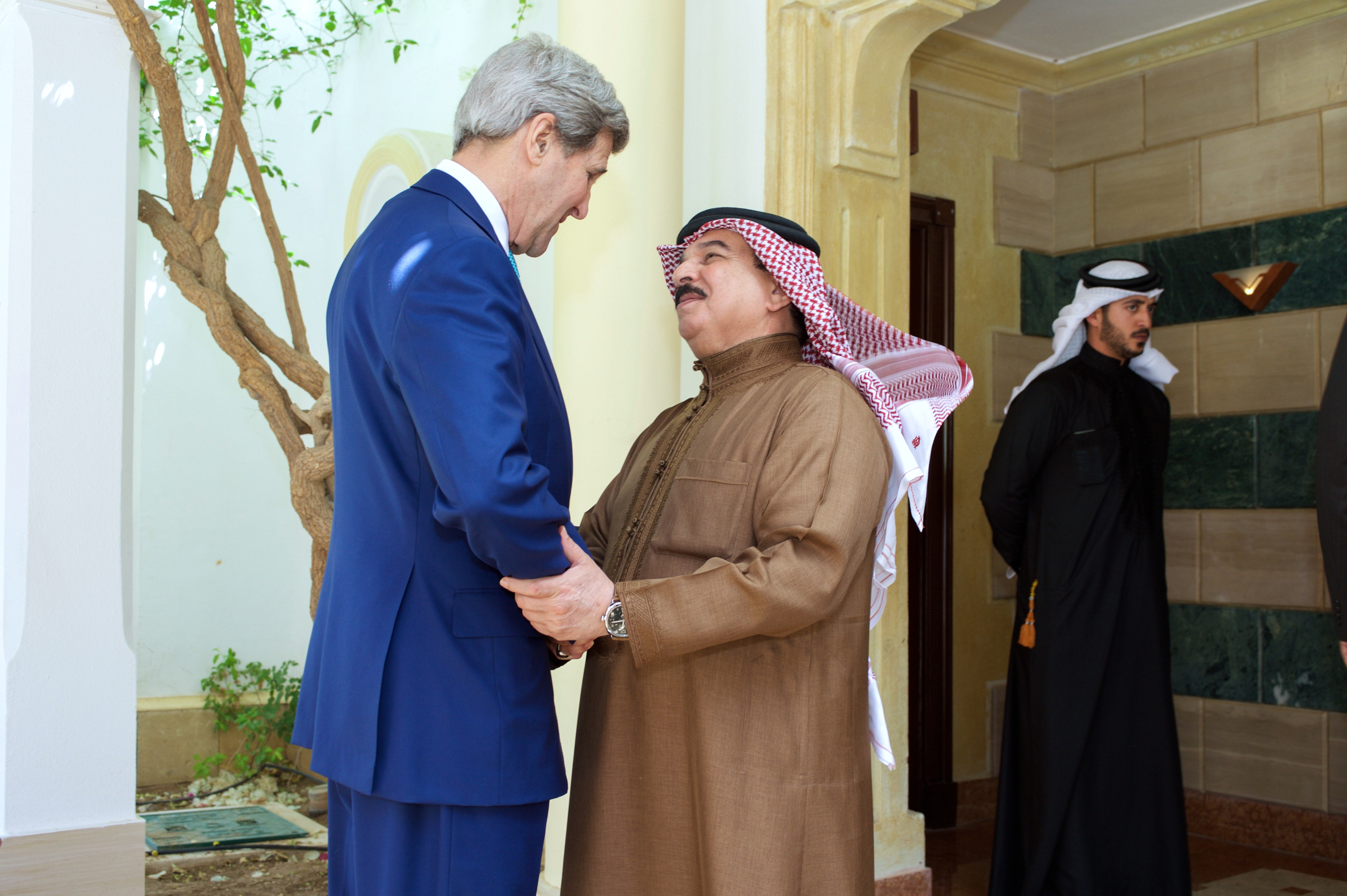 King Hamad bin Isa Al Khalifa of Bahrain greets U.S. Secretary of State John Kerry on March 14, 2015, in Sharm el-Sheikh, Egypt, as he arrives for a bilateral meeting amid an Egyptian development conference. [State Department Photo/Public Domain]